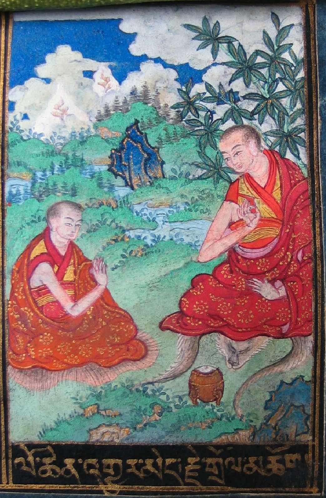 Gyurme Dechen (b.1540 - d.1615)- Jonang master